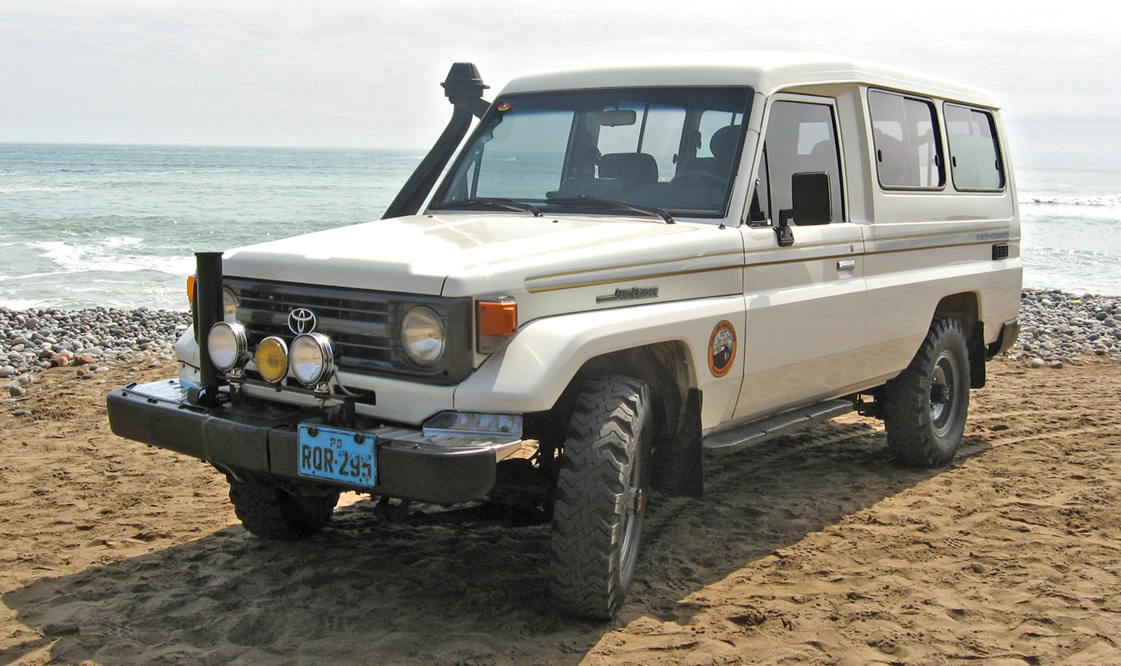 Toyota Land Cruiser Troopy, Model HZJ75LV.